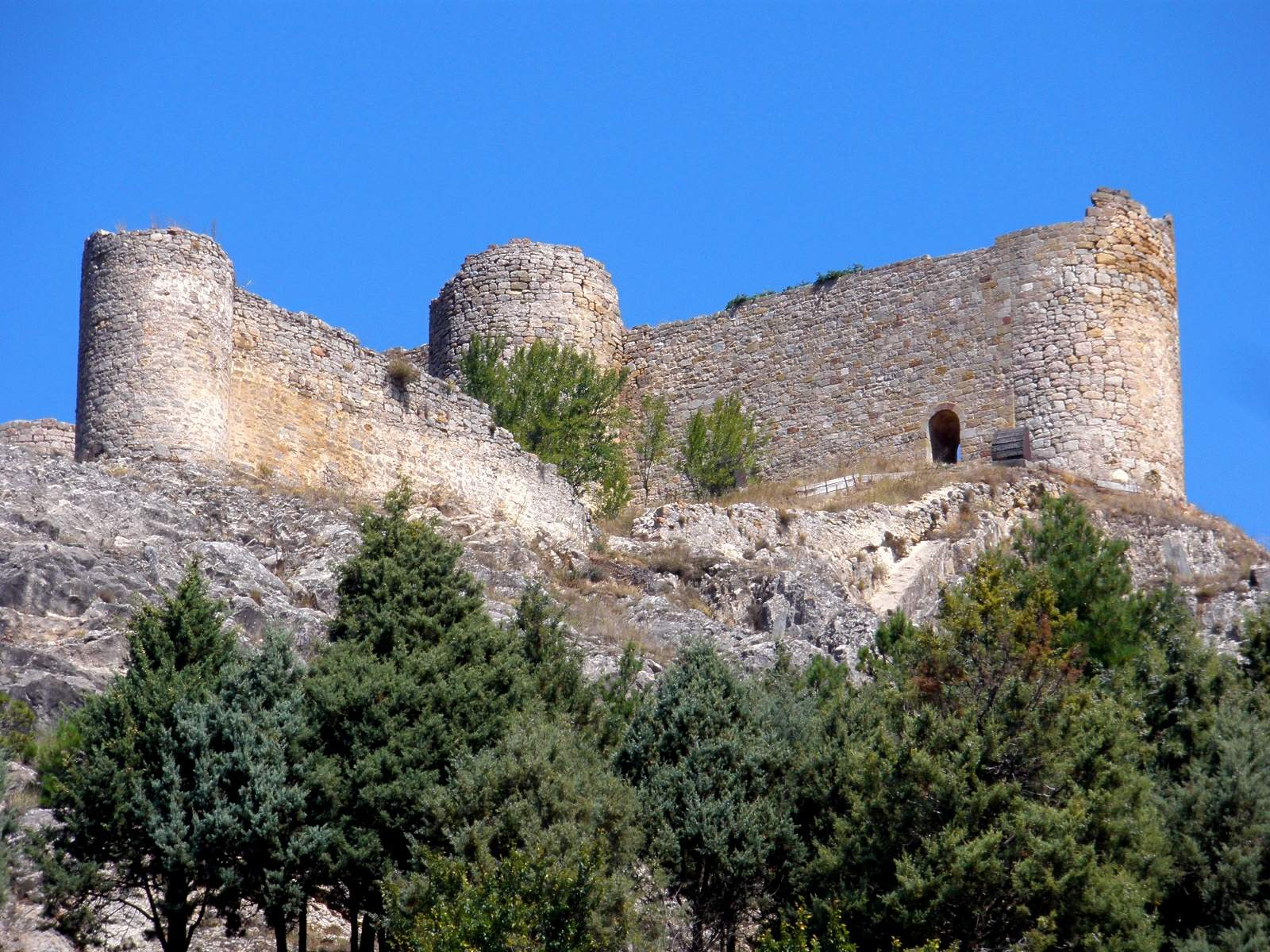 Castillo de Aguilar de Campoo